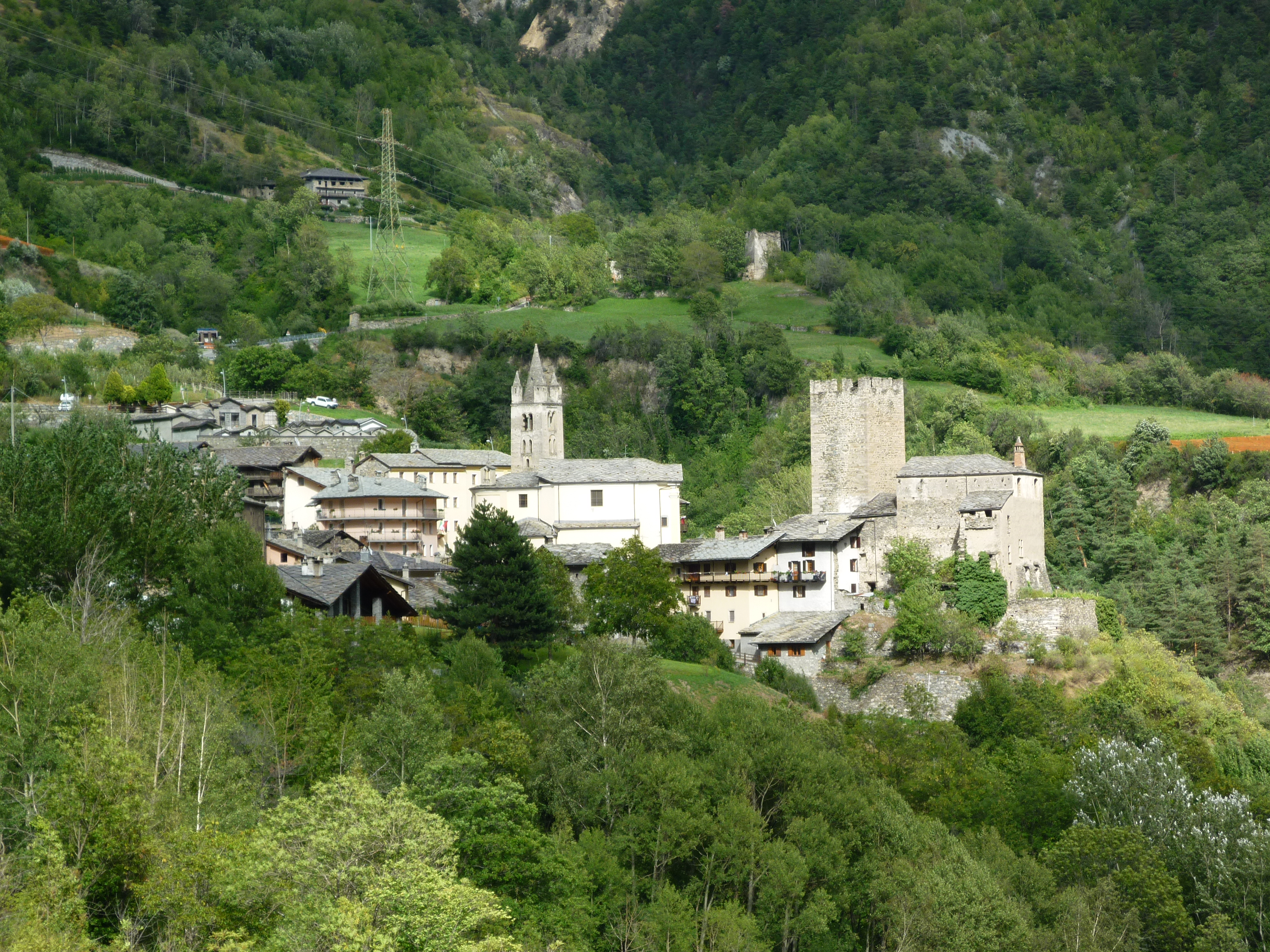 Val d'Aoste (Italy) : a view of the Avise village, with its Saint-Brice parochial church (with a spire, centre) and its Blonay castle (visible on the right, with a crenellated tower). The Castello di Cré ruins are scarcely visible on the heights, behind trees. The third village castle, the castle of Avise, is not visible because it is placed at the western village entrance, so it is masked by the trees on the left of the picture.